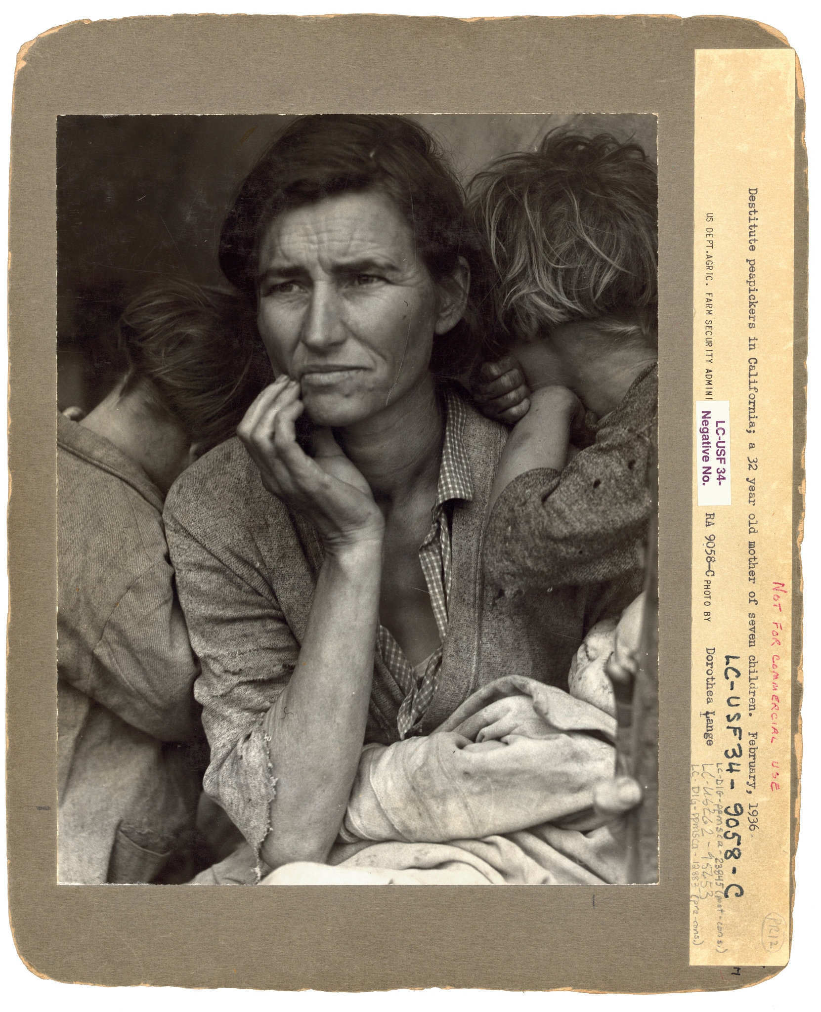 Portrait shows Florence Thompson with several of her children in a photograph known as "Migrant Mother". The Library of Congress caption reads: "Destitute pea pickers in California. Mother of seven children. Age thirty-two. Nipomo, California." In the 1930s, the FSA employed several photographers to document the effects of the Great Depression on the population of America. Many of the photographs can also be seen as propaganda images to support the U.S. government's policy distributing support to the worst affected, poorer areas of the country. Lange's image of a supposed migrant pea picker, Florence Owens Thompson, and her family has become an icon of resilience in the face of adversity. However, it is not universally accepted that Florence Thompson was a migrant pea picker. In the book Photographing Farmworkers in California (Stanford University Press, 2004), author Richard Steven Street asserts that some scholars believe Lange's description of the print was "either vague or demonstrably inaccurate" and that Thompson was not a farmworker, but a Dust Bowl migrant. Nevertheless, if she was a "Dust Bowl migrant", she would have left a farm as most potential Dust Bowl migrants typically did and then began her life as such. Thus any potential inaccuracy is virtually irrelevant. The child to the viewer's right was Thompson's daughter, Katherine (later Katherine McIntosh), 4 years old (Leonard, Tom, "Woman whose plight defined Great Depression warns tragedy will happen again ", article, The Daily Telegraph, December 4, 2008) Lange took this photograph with a Graflex camera on large format (4"x5") negative film.[1]